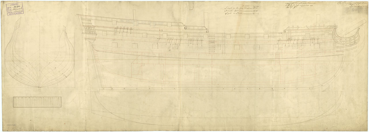 Harwich (1743); Colchester (1744) Scale: 1:48. Plan showing the body plan, inboard profile, and longitudinal half-breadth for Harwich (1743) and Colchester (1744), both 1741 Establishment 50-gun Fourth Rate, two-deckers. A copy of the draught sent to Harwich was not approved of, and later the two foremost upper deck gunports were moved aft. Note that the Harwich is referred to by her original building name of Tyger [Tiger]. HARWICH 1743